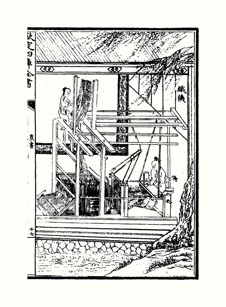 Weaving machine